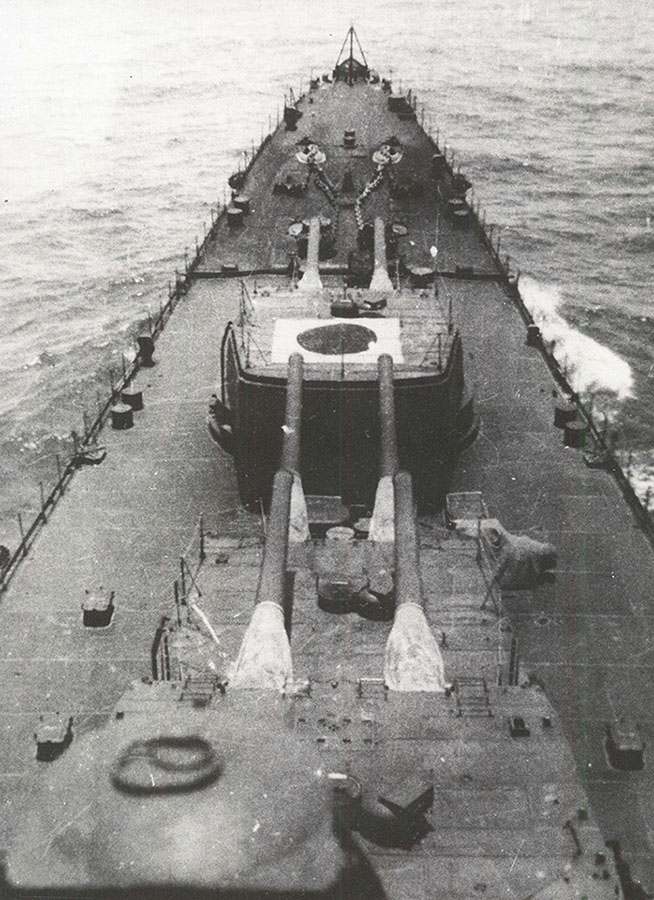 Forward 203-mm gun mount the Japanese heavy cruiser Mogami.